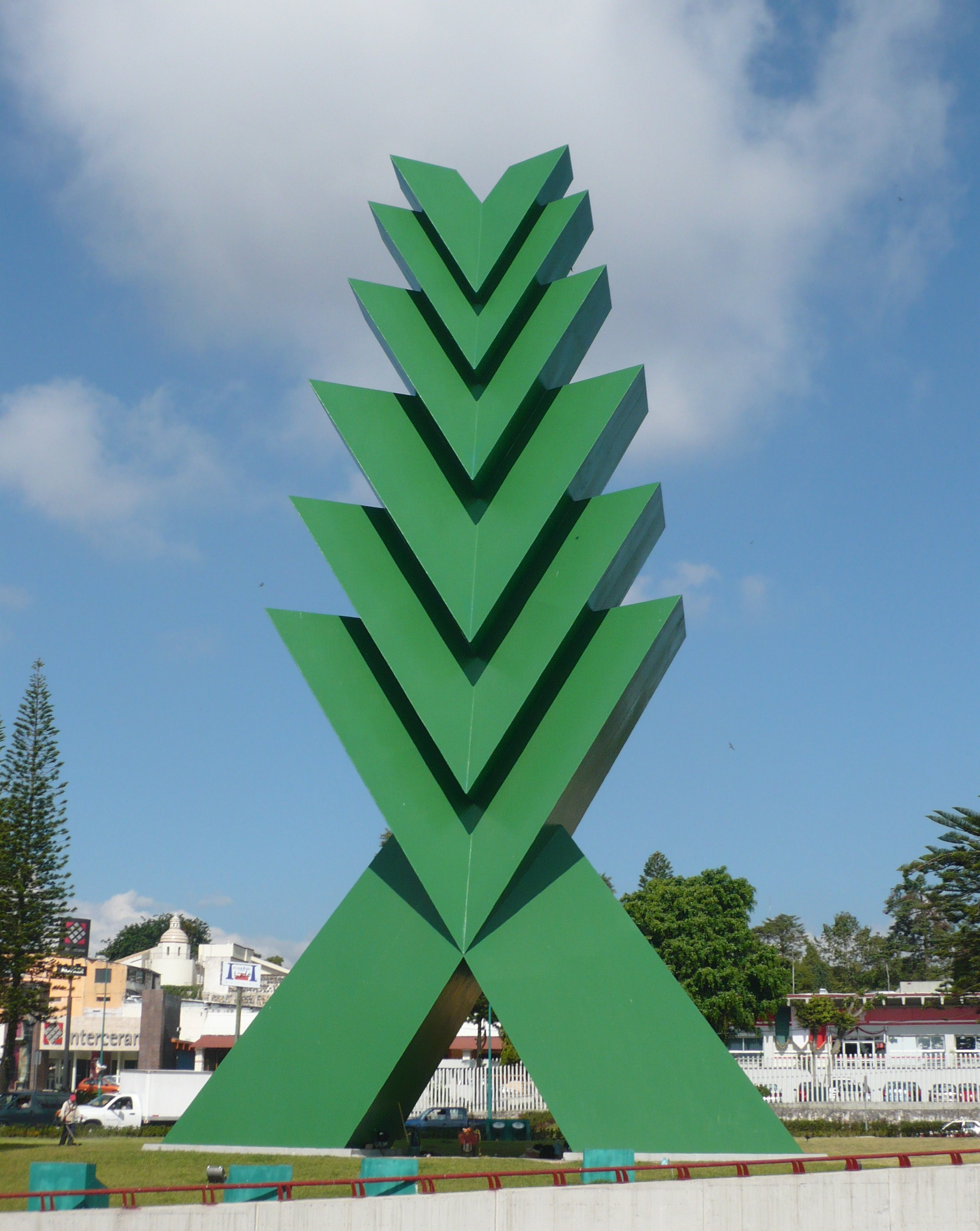 The Araucarias-sculpture in Xalapa, Mexico